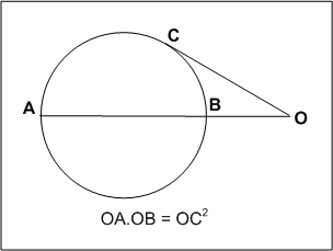 Circle, chord and tangent to expalin OA.OB = OC^2